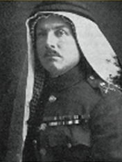 Frederick Peake portrait